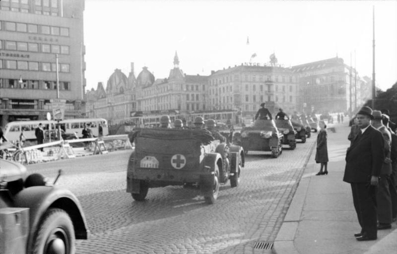 "Oslo, Norway.- German automobiles and Panzer Is, Victoria Terrasse in the background; PK [Propagandakompanie] Staffel North"